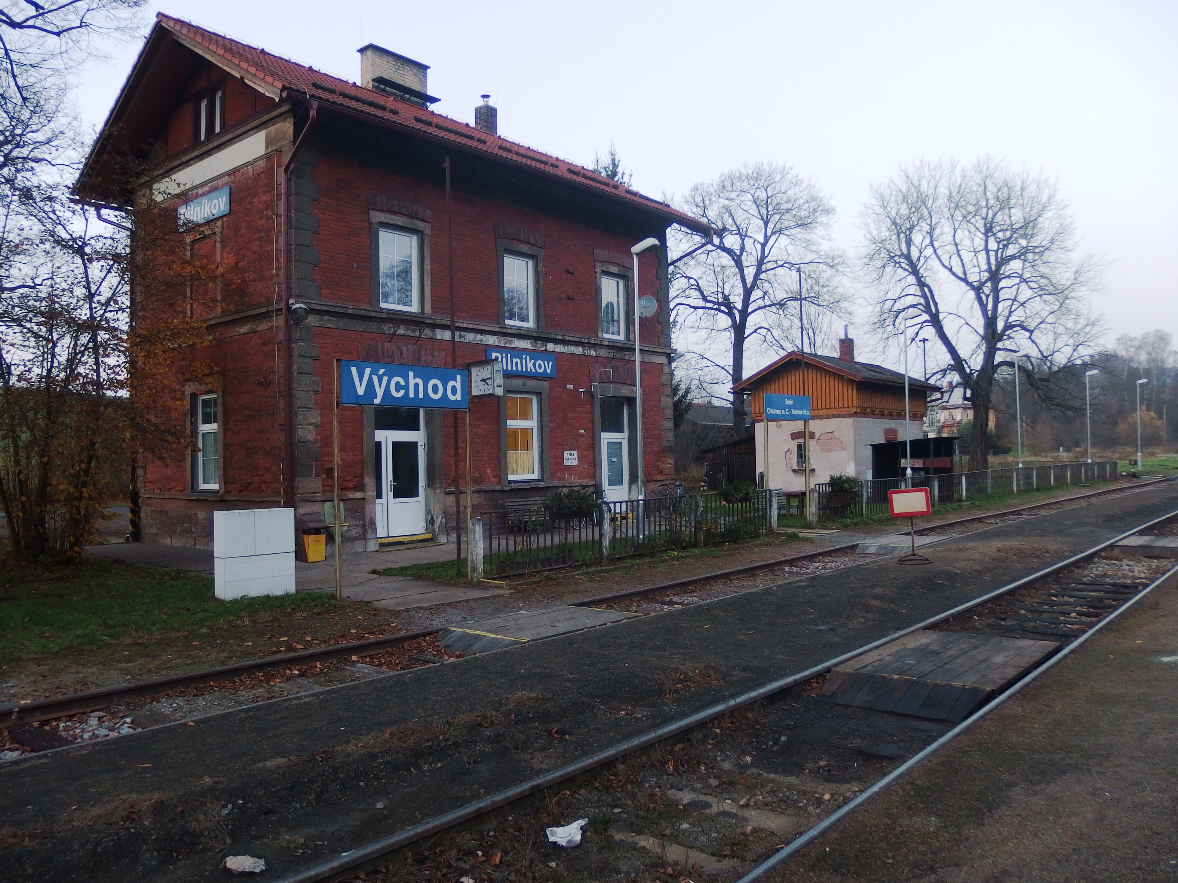 Pilníkov, Trutnov District, Czech Republic. Train station.